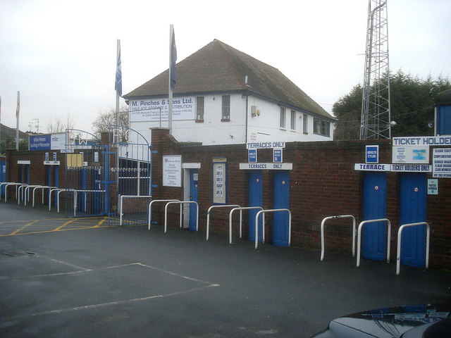 Turnstiles at Worcester City football ground. Main entrance off St Georges Road.